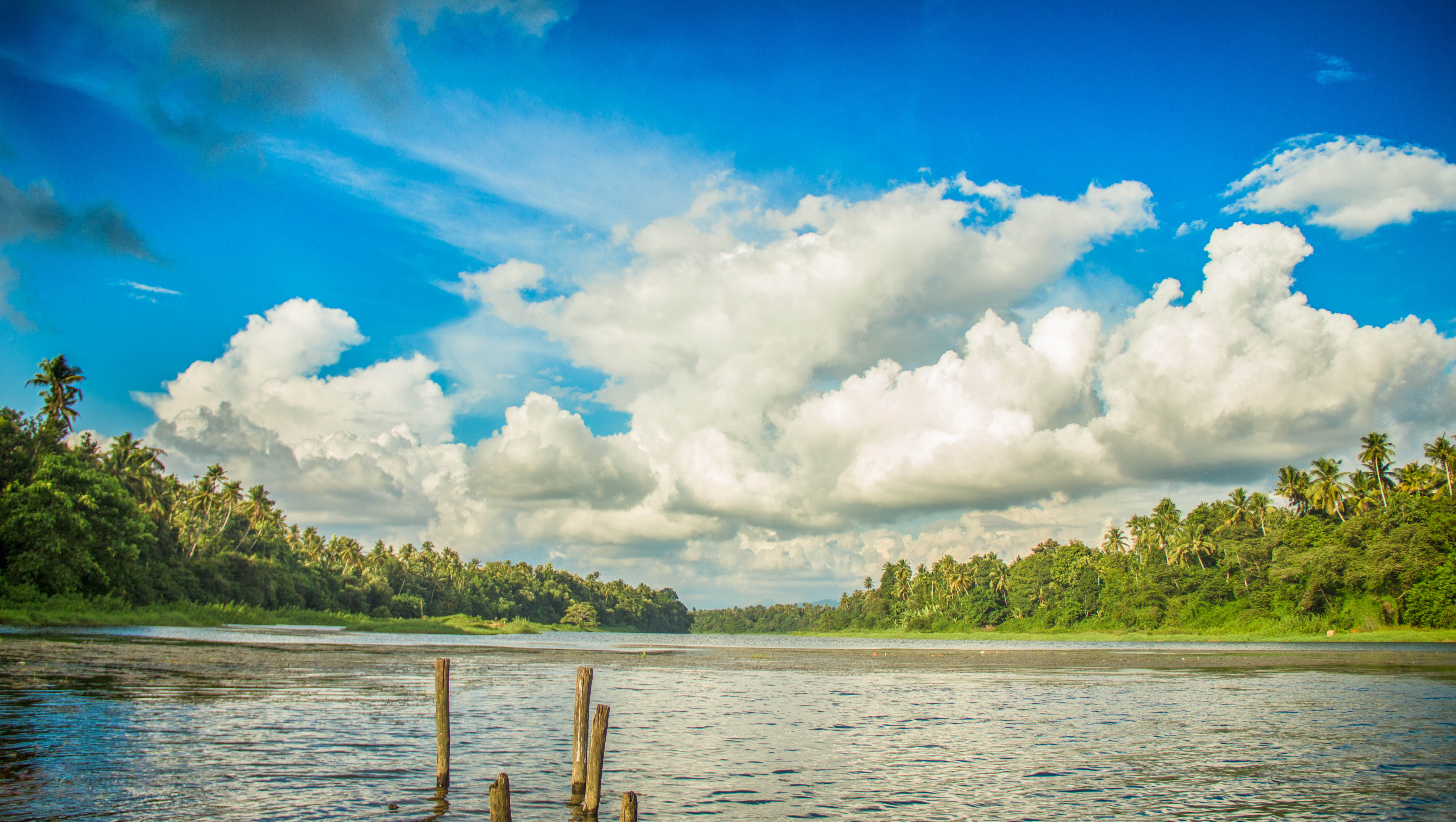 The clouds tell a story